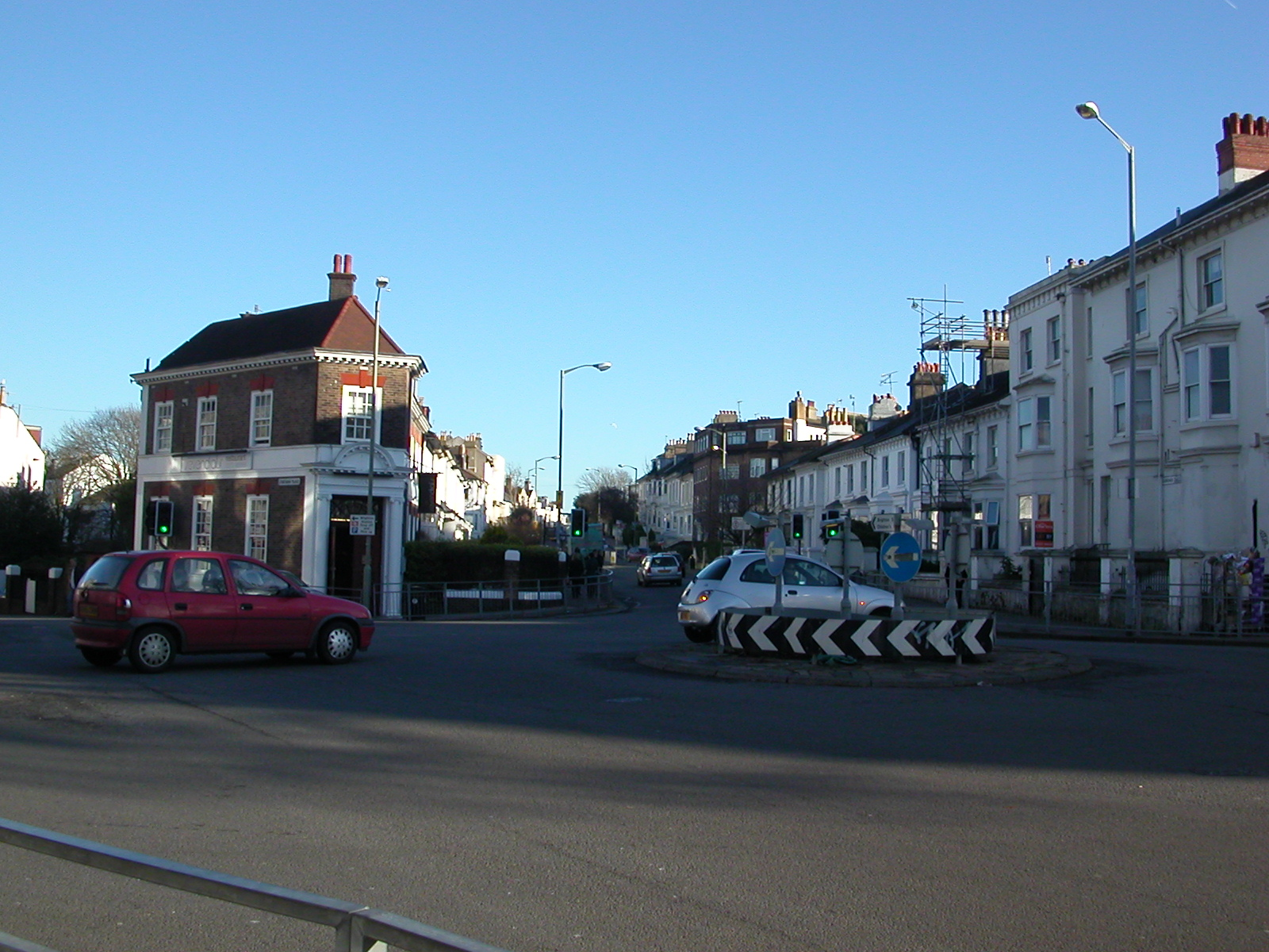 Seven Dials in Brighton, looking east. Photographed on 9th December 2006.